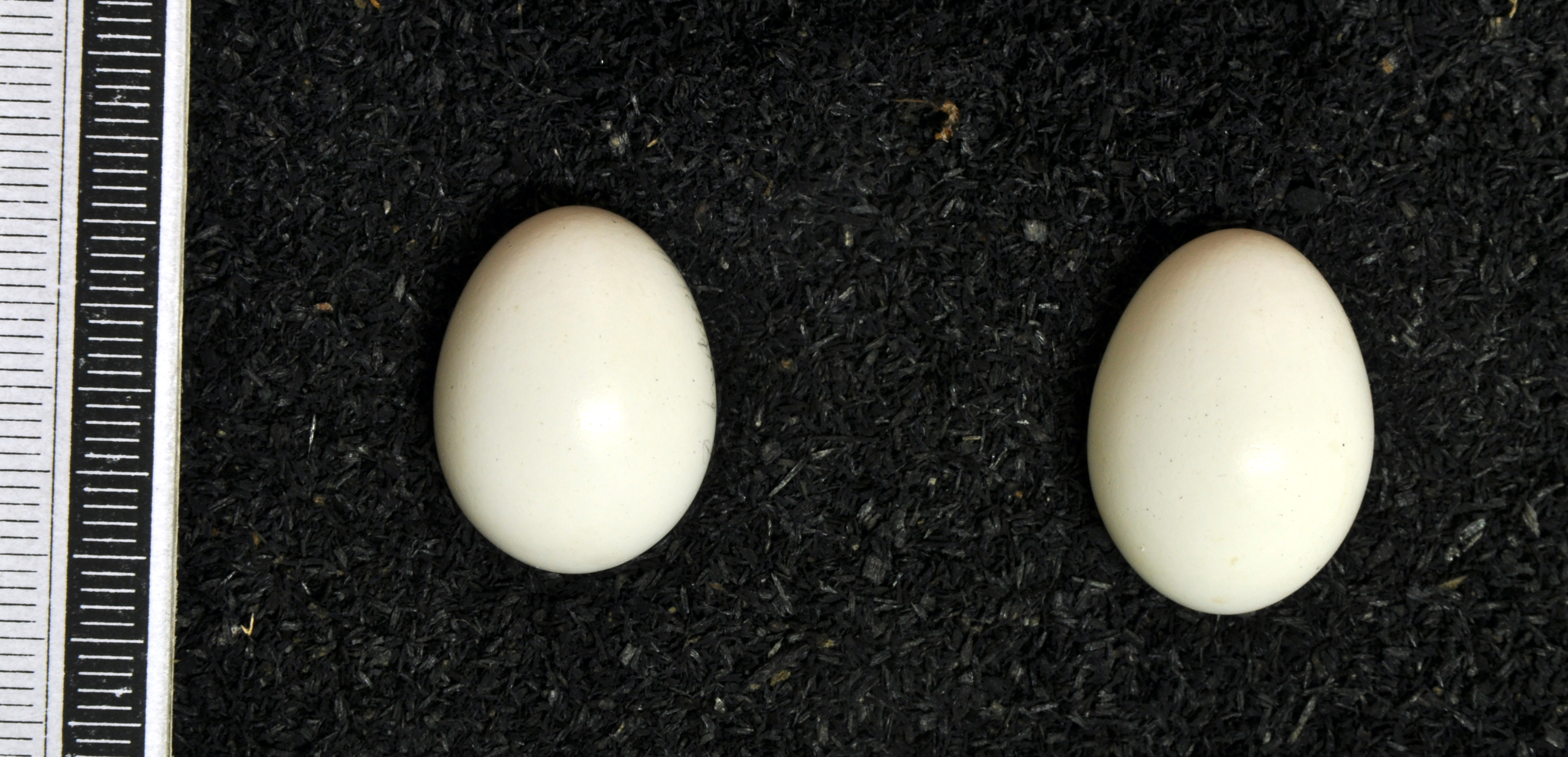 Three-toed woodpecker Picoides tridactylus , egg, Coll. Museum Wiesbaden